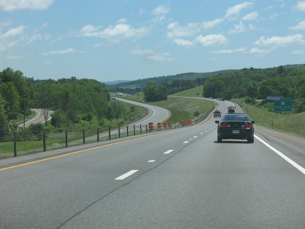 Interstate 81 north Binghamton, New York, southbound.